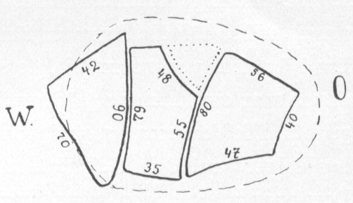 Stony cone above the dolmen